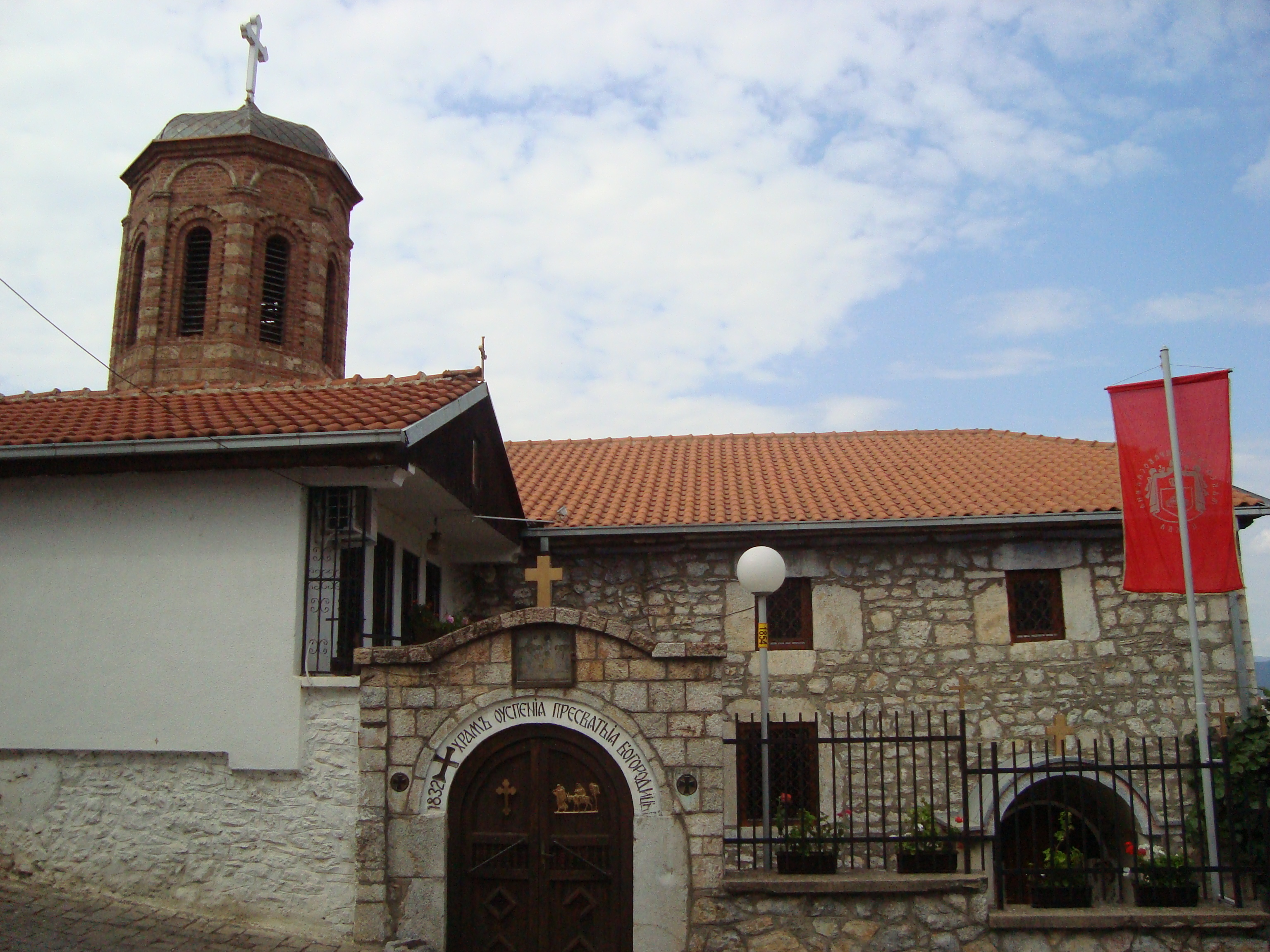 The main entrance of St. Mary Assumption Kamensko Church, Ohrid, Macedonia.